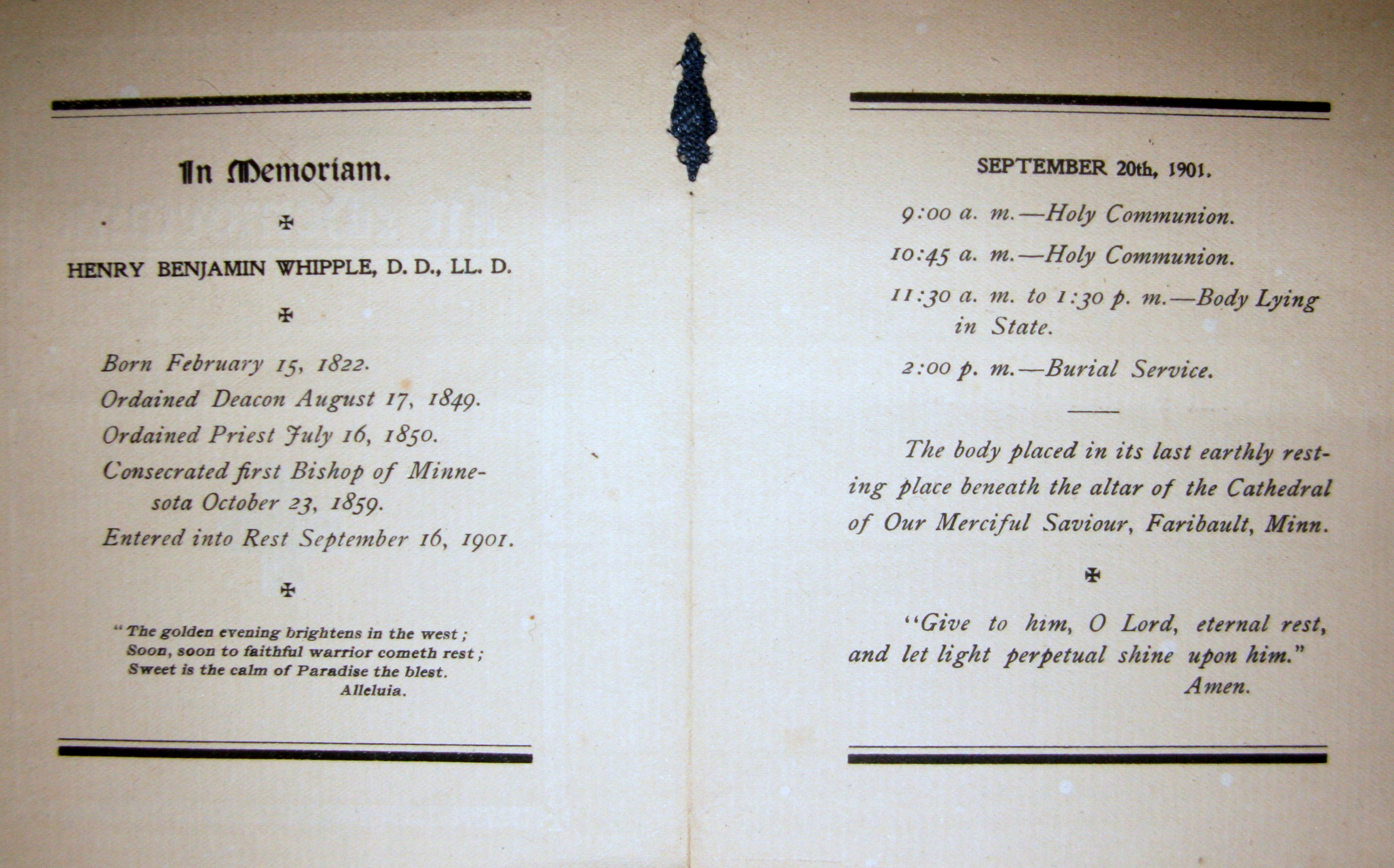 Program for the funeral of Bishop Henry Benjamin Whipple, published 20 September 1901 by The Cathedral of Our Merciful Saviour, Faribault, Minnesota. (This work is in the public domain in the United States and worldwide.)